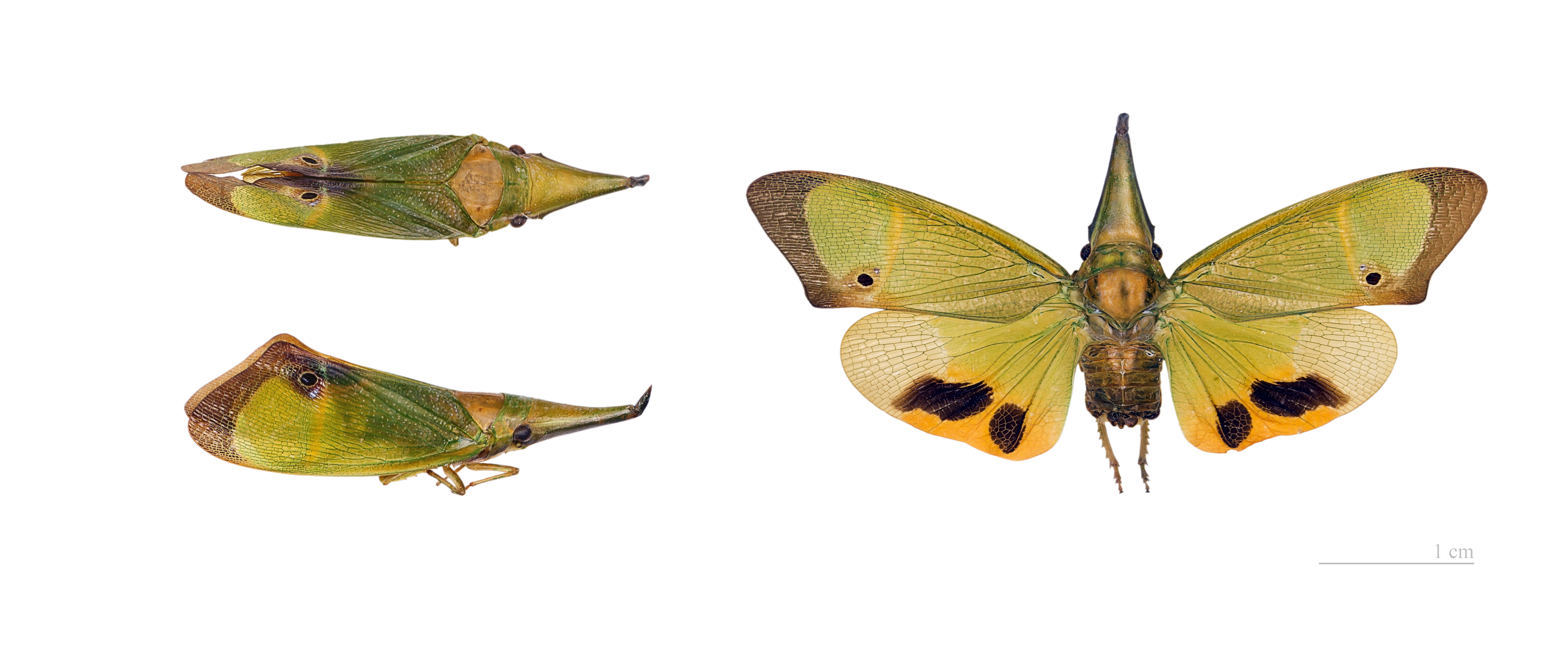 ♂ - three views of the same species. Locality : “RK4,5 route Cacao”, French Guiana